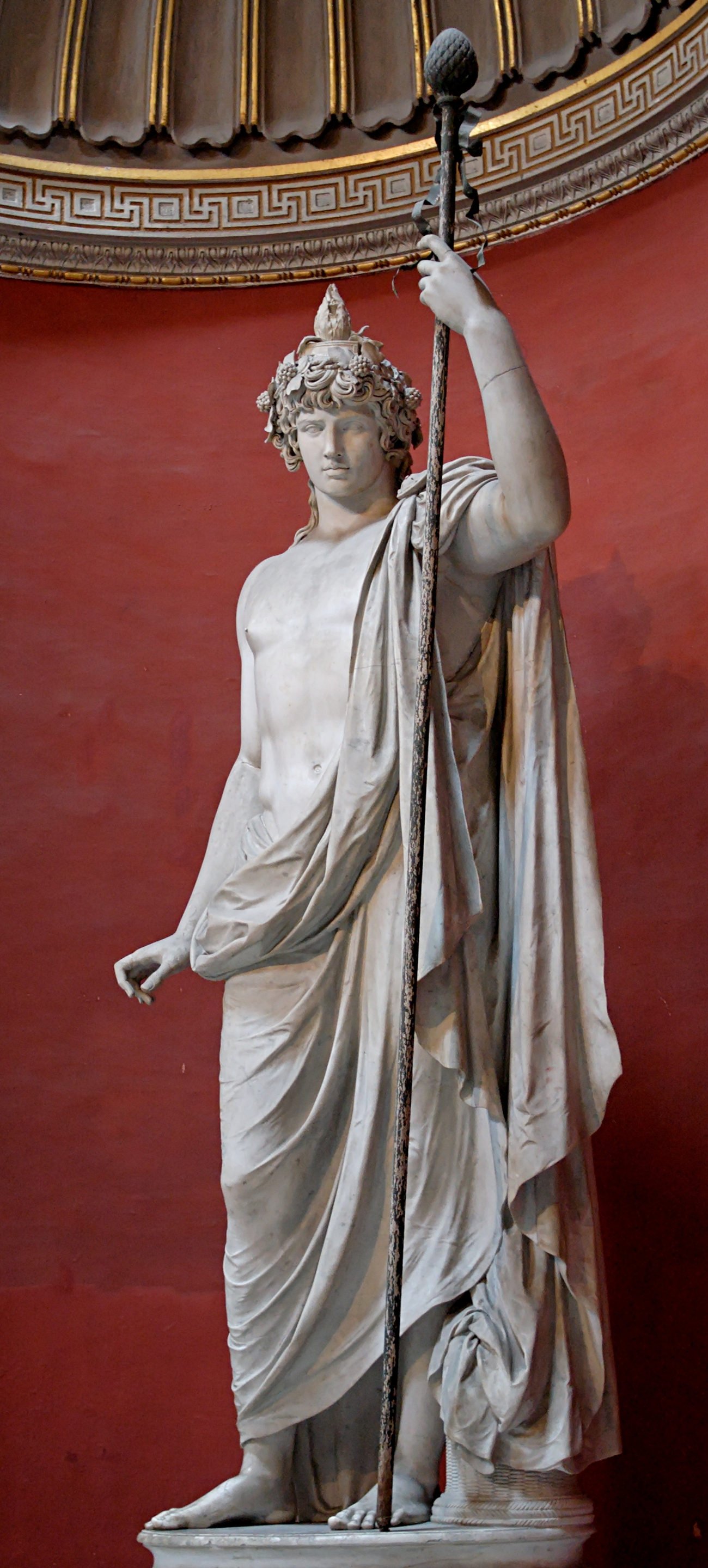 Colossal statue of Antinous as Dionysos-Osiris (ivy crown, head band, cistus and pine cone). Restored by Giovanni Pierantoni.